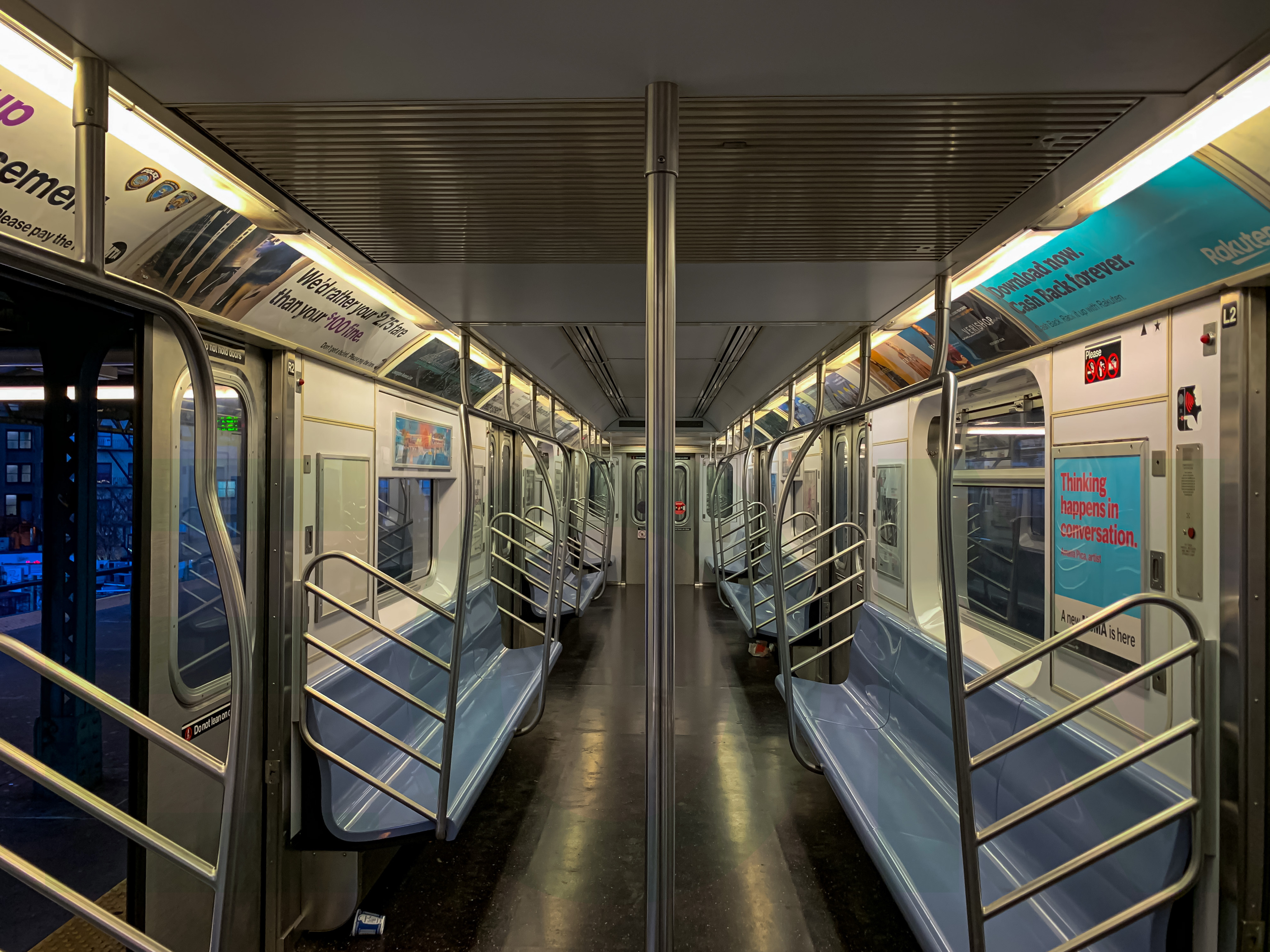 The interior of an R142A signed up to be a (5) train via the (4) line at Burnside Avenue going towards Bowling Green due to track maintenance.